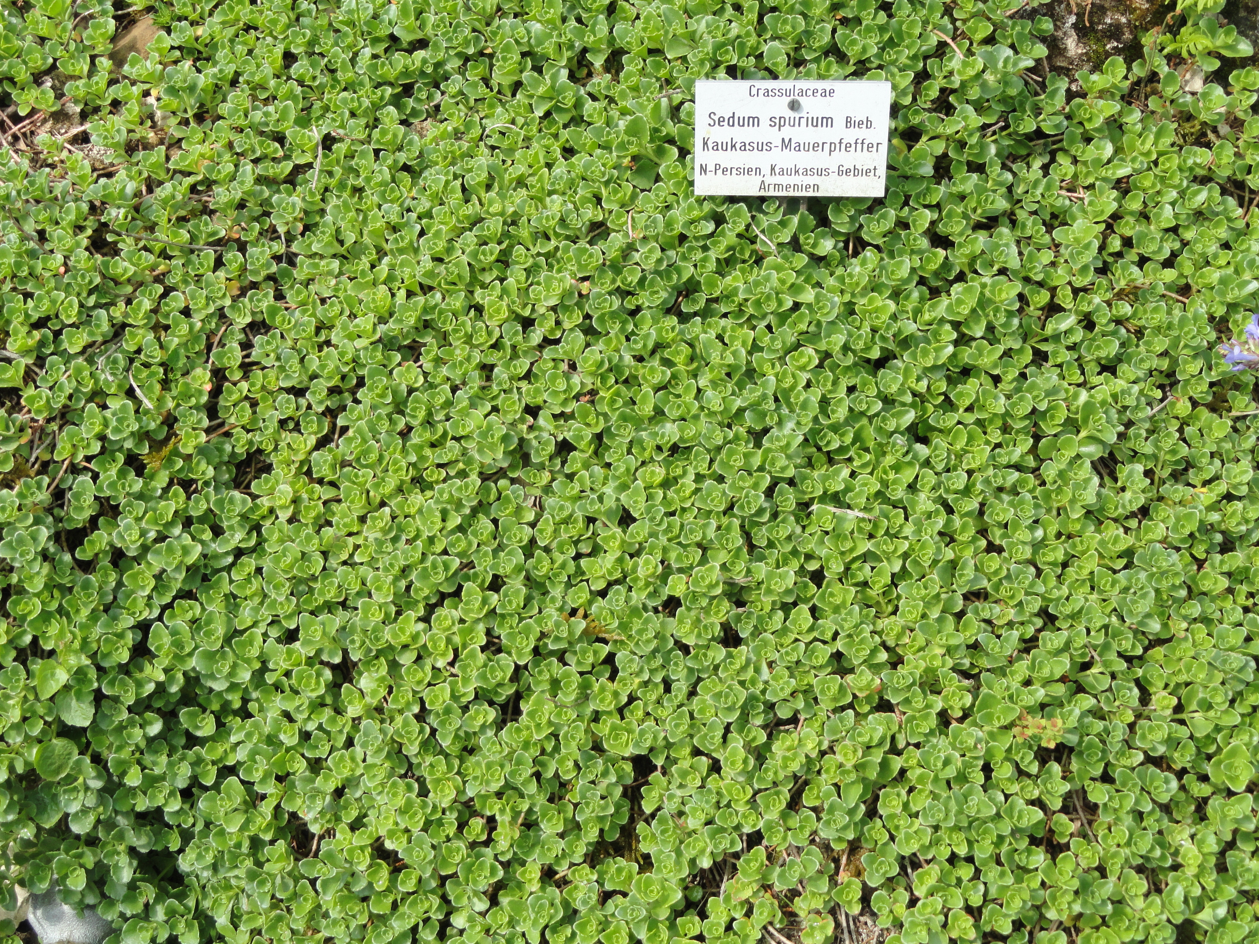 Sedum spurium (now Phedimus spurius) specimen in the Botanischer Garten München-Nymphenburg, Munich, Germany.